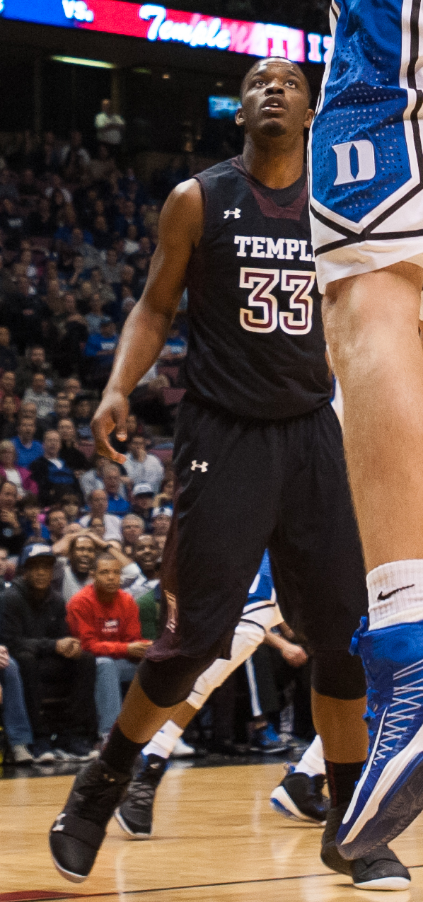 Mason Plumlee | Duke Blue Devils vs. Temple Owls - Dec. 8th, 12